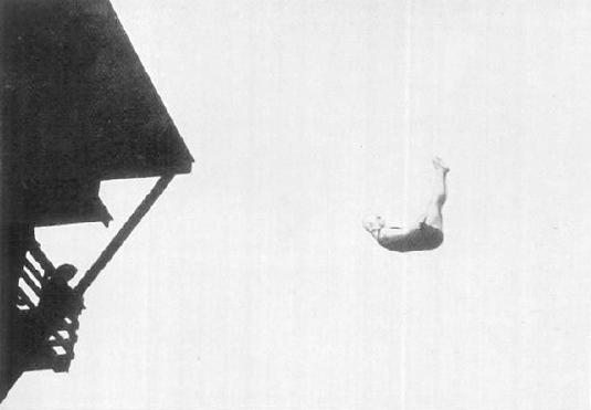 Albert Zürner competing in the plain and variety diving (10 metre platform) at the 1912 Summer Olympics